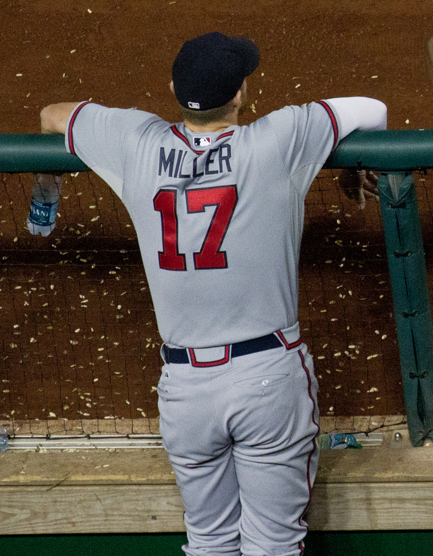 Shelby Miller